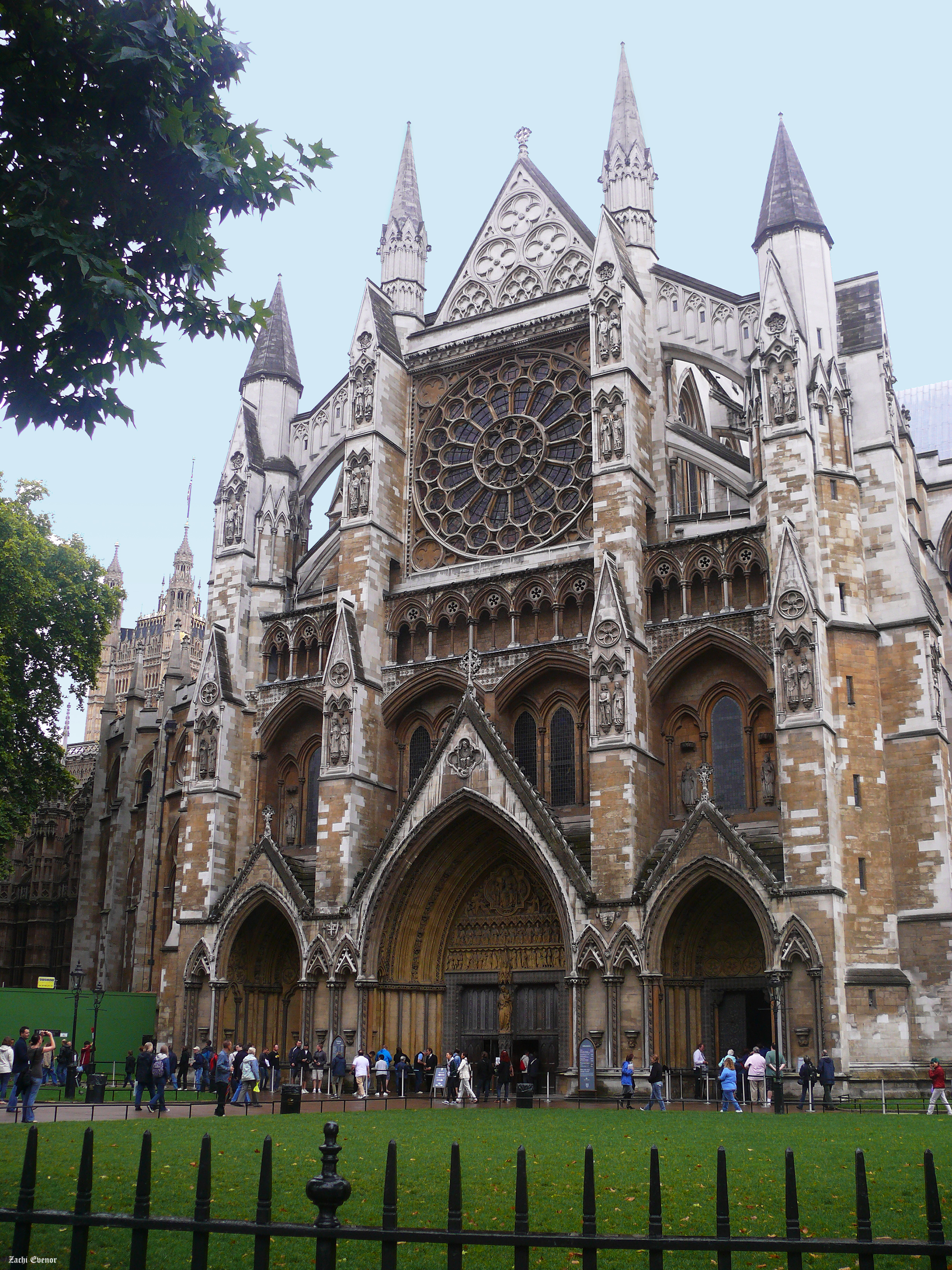 Westminster Abbey, London - north facade, Gothic style